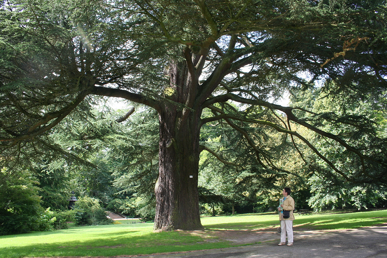 Lebanon Cedar .